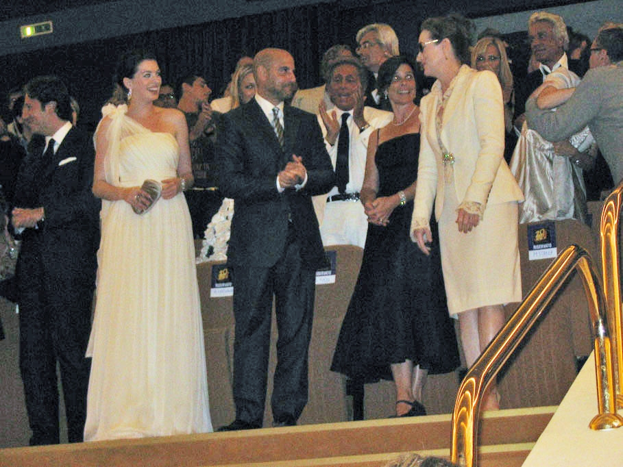 The cast: Anne Hathaway, Stanley Tucci, Meryl Streep